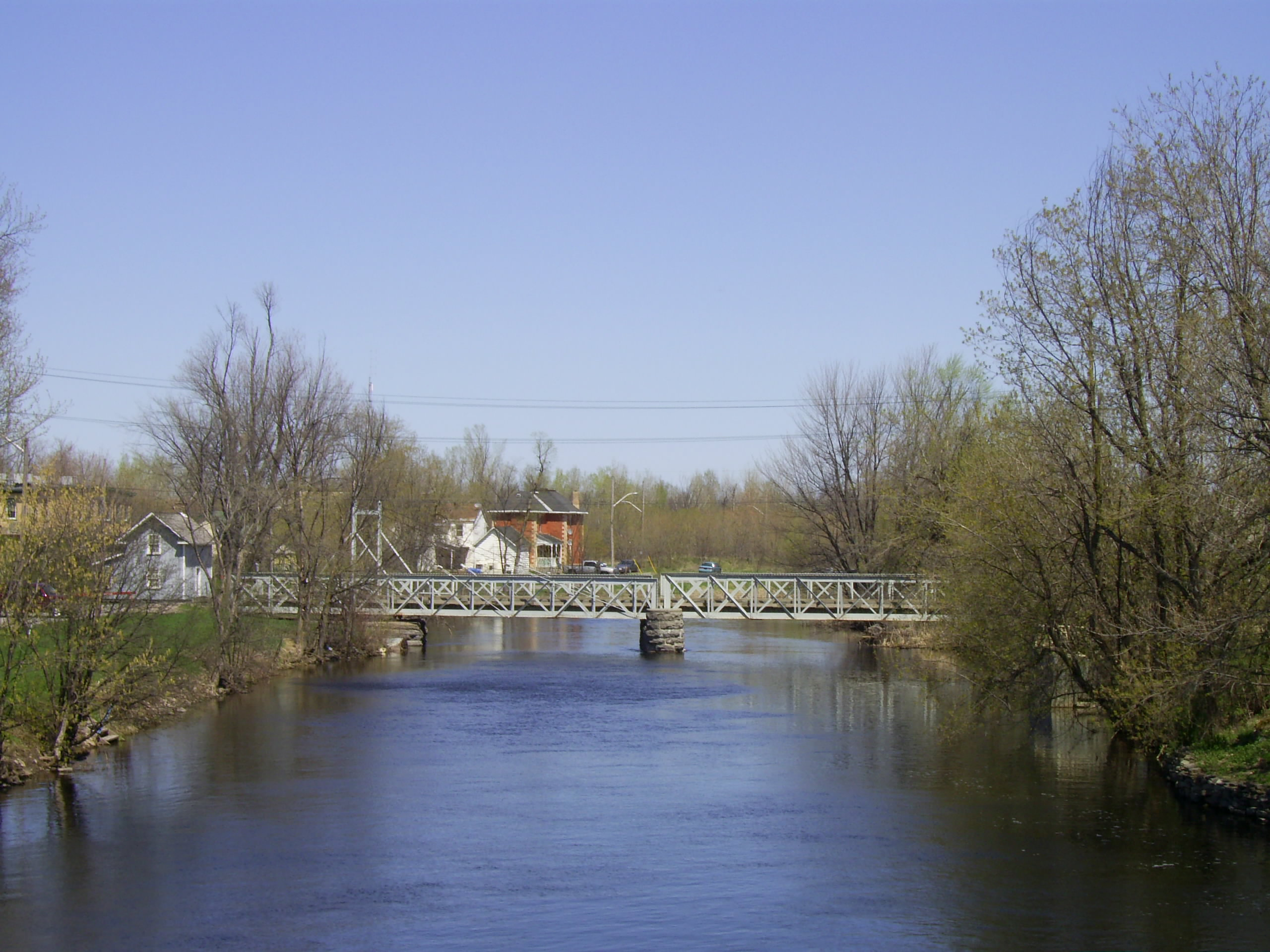 Beckwith Street (former swing bridge) over the Tay Canal